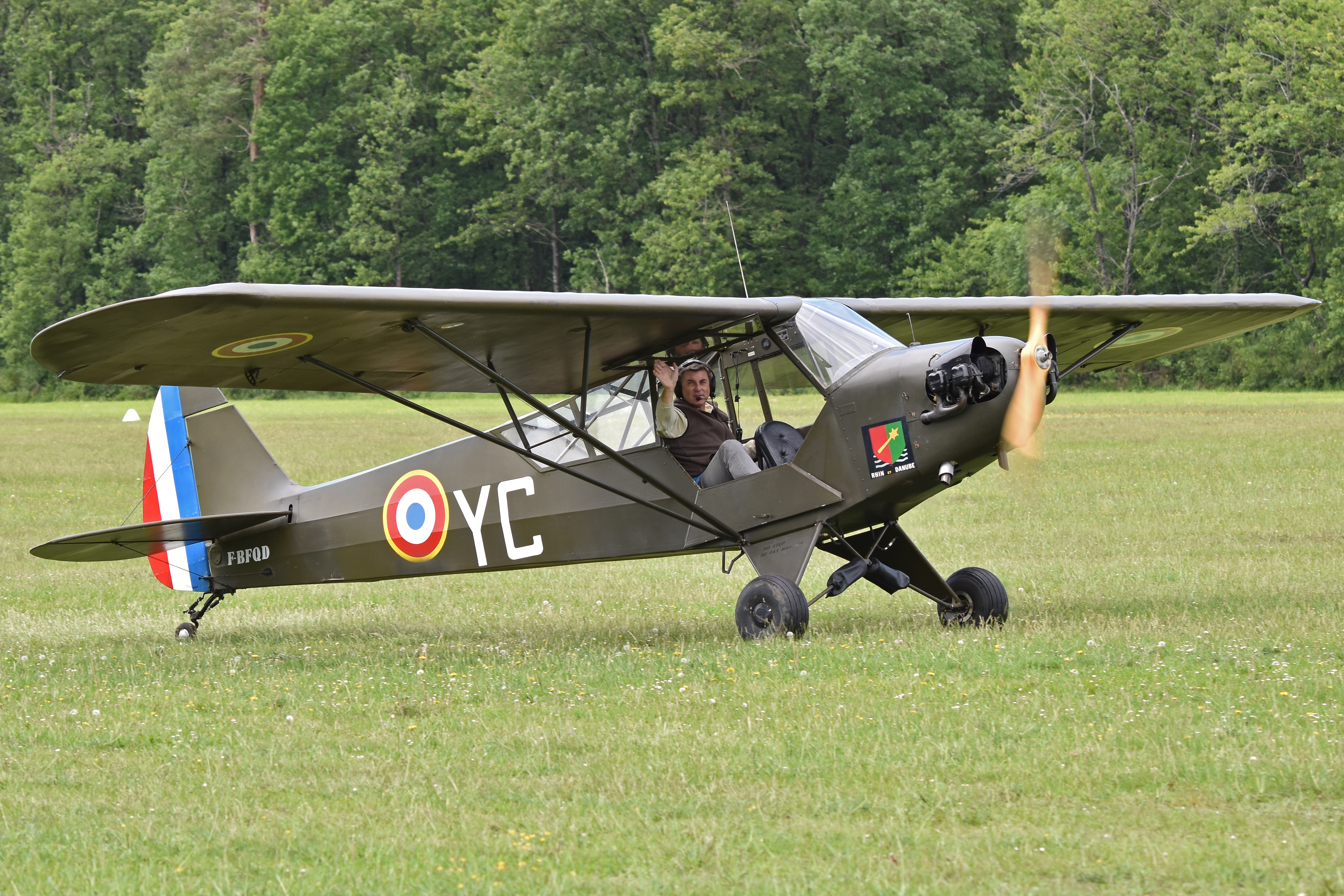 c/n 13028 Built 1944 as an L-4J Grasshopper with the US military serial 44-80732. Now privateky owned and wearing a French Army colour scheme. Seen taxiing in after displaying at the 2019 Fête Aérienne Le Temps Des helices (Aerial Festival – The Time of the Propellers). Aérodrome de Cerny-La-Ferté-Alais, Cerny, France 9th June 2019